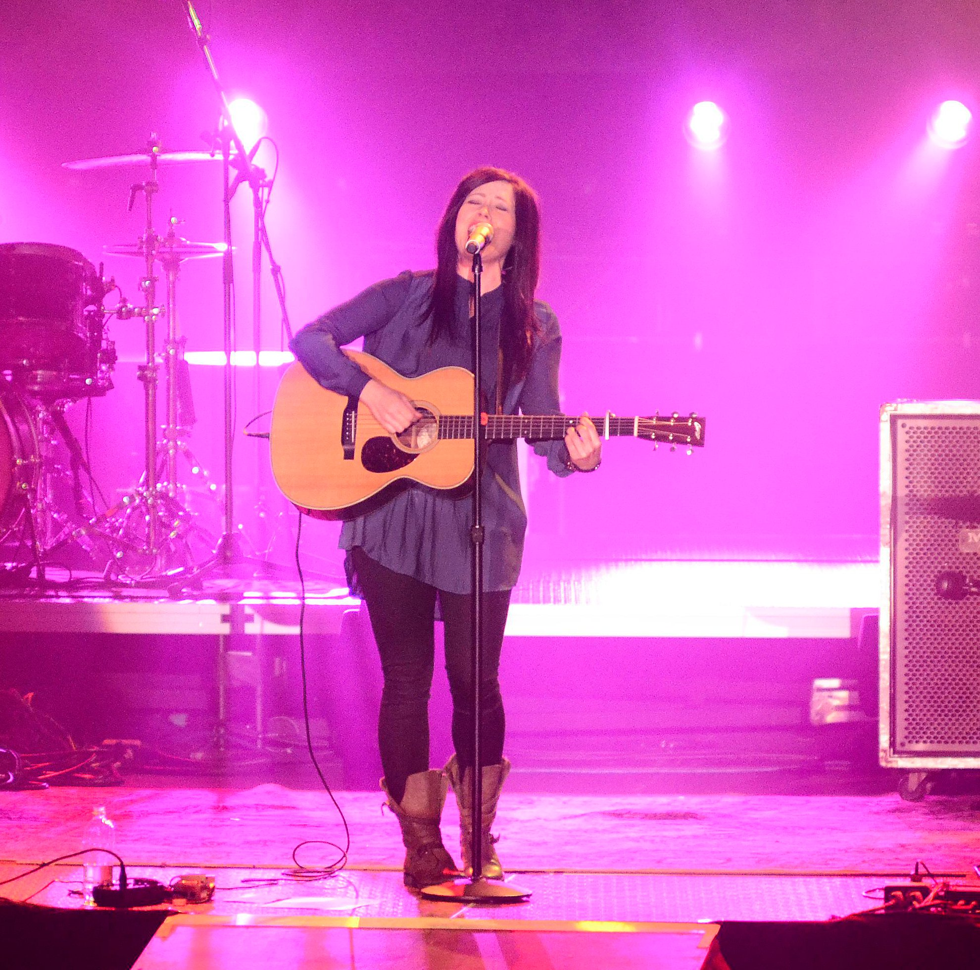 American Christian music singer Kari Jobe in concert at Burning Lights in New York City.